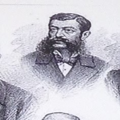 Dr Mladen Janković (1831-1885), Archive of the Serbian Academy of Sciences and Art in Belgrade.(1873)